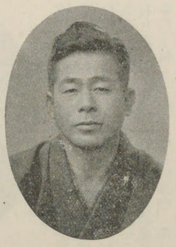 Jūmin Tōma